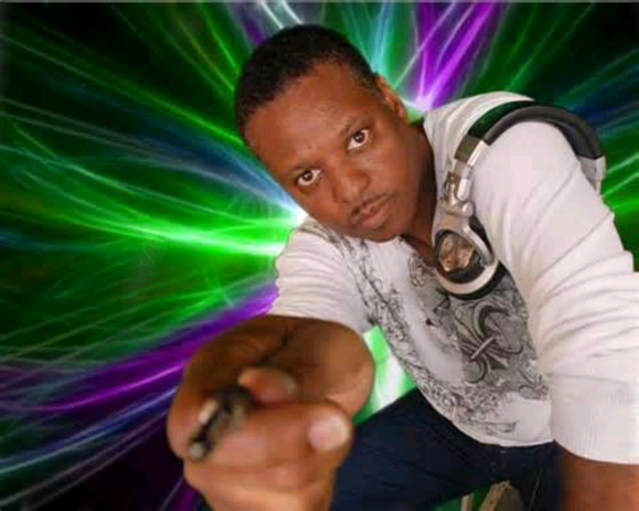 Promotional photo!